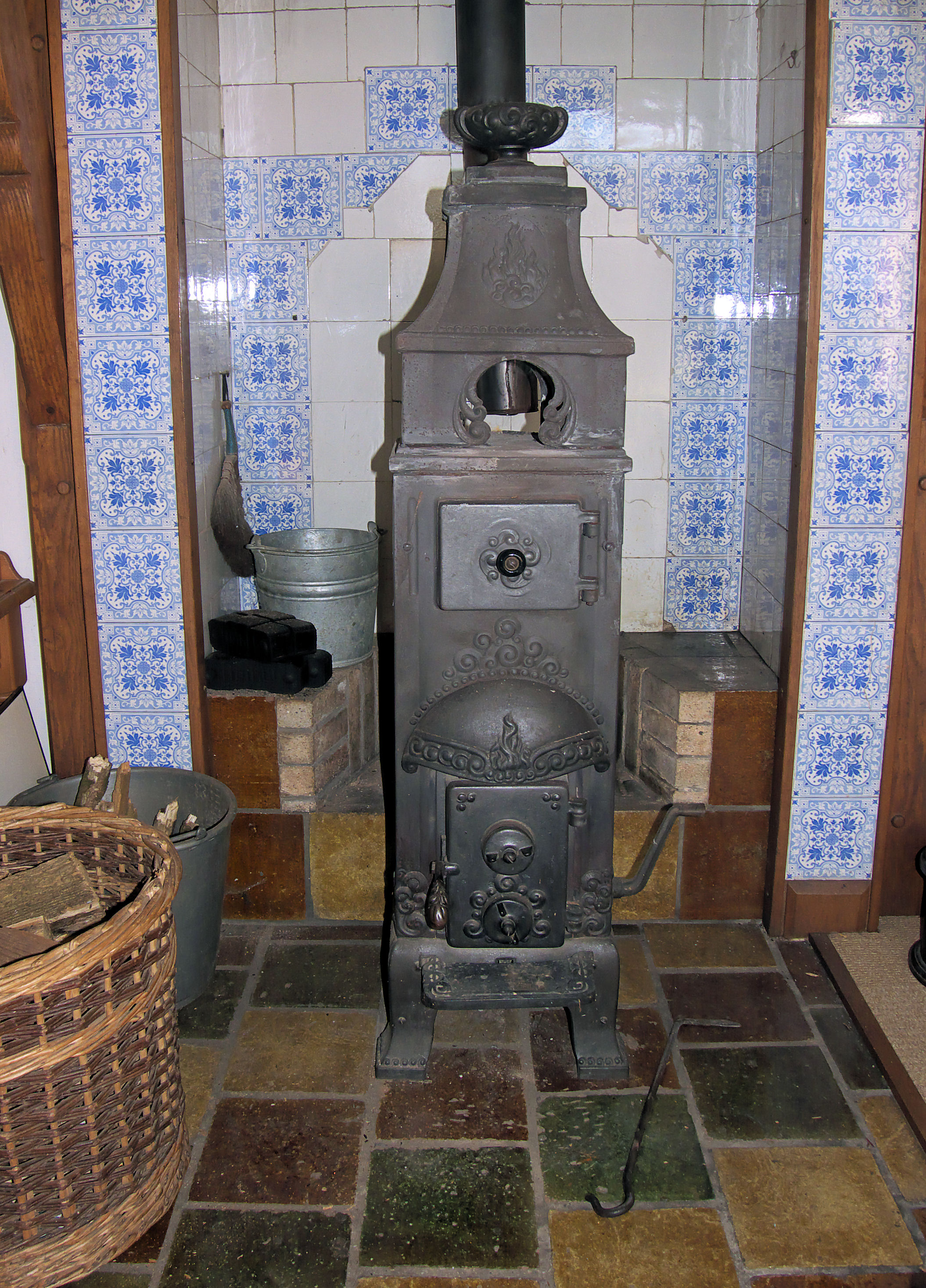 Stove